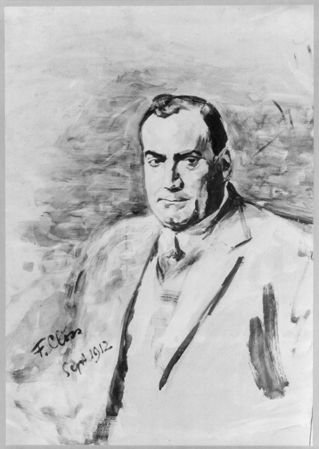 Enrico Caruso, 1873-1921, half-length portrait, facing left